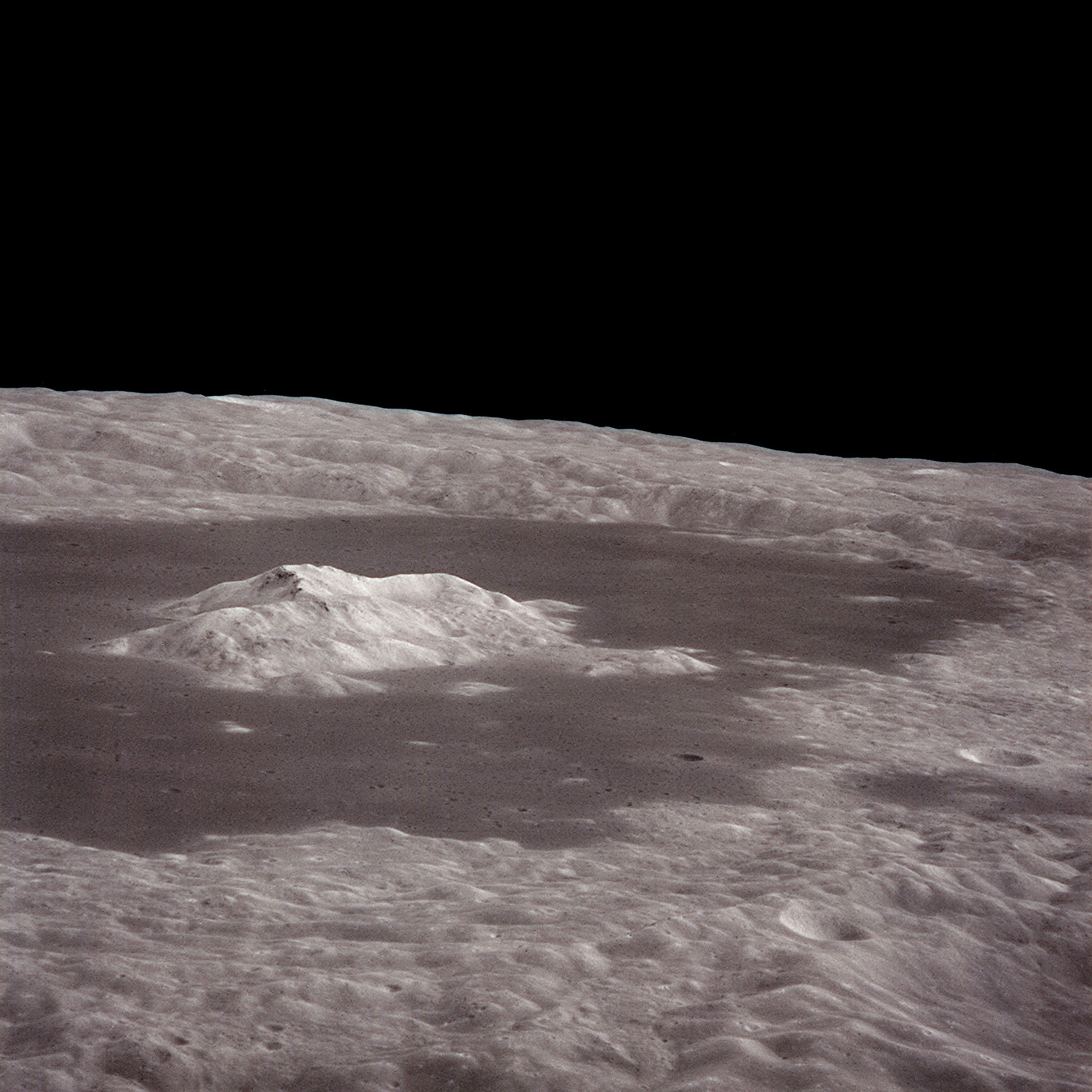 Tsiolkovsky crater on the far side of the Moon, as seen from the Apollo 15 while in lunar orbit.